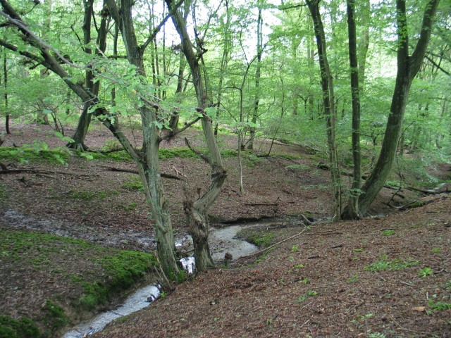 Cuffley Brook and wall, Northaw Great Wood Cuffley Brook, flowing through Northaw Great Wood. The moss-covered bank on the far bank is the site of an old boundary wall between Northaw and Hatfield Parishes.